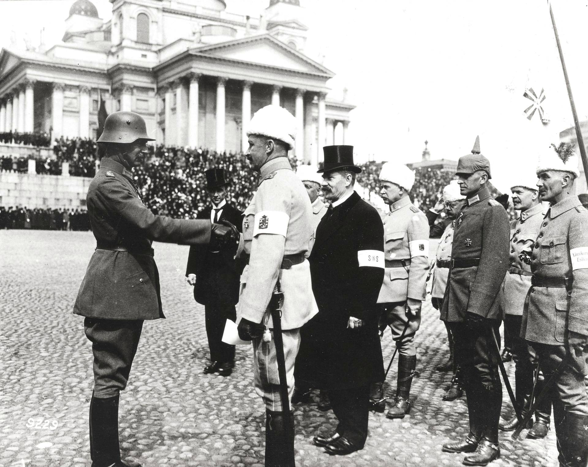 General C.G. Mannerheim, Commander of the Finnish White Army, receiving Prussian General Count von der Goltz and German officers in Helsingfors (Helsinki) in May 1918. Right from Mannerheim senator Svinhufvud. Baron Carl Gustaf Emil Mannerheim, Commander-in-Chief of Finland's Defence Forces led government forces during the civil war of 1917–18. An astute politician and a successful military commander. He was Regent of Finland (1918–1919), and the sixth President of Finland (1944–1946).